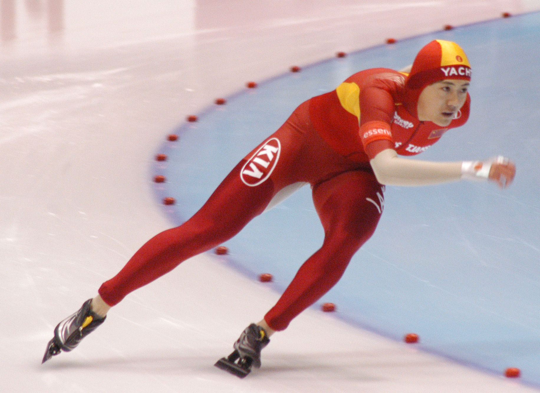 Beixing Wang (CHN) in action at a World Cup Speedskating in Heerenveen, the Netherlands.